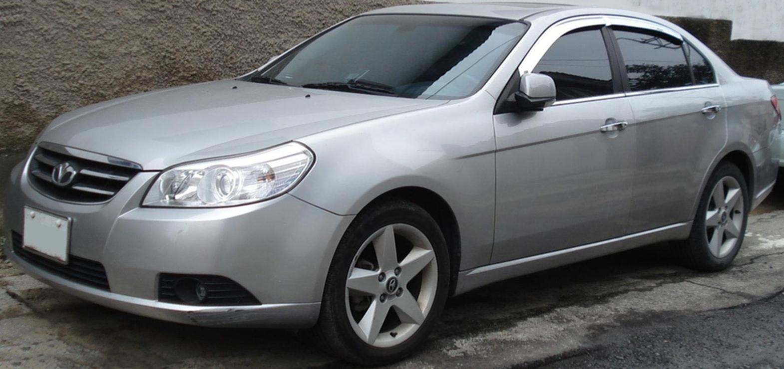 Daewoo Tosca